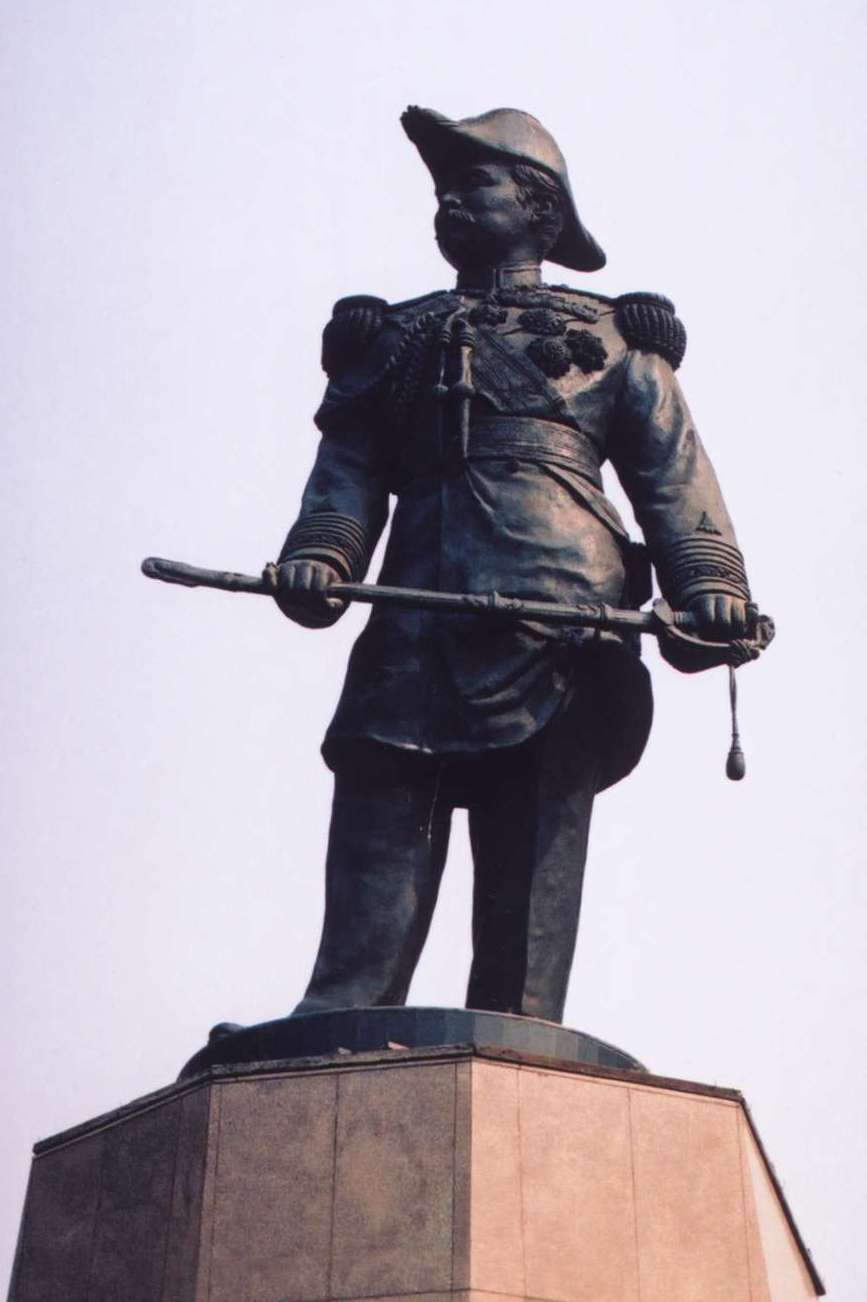 Statue of King Rama V (Chulalongkorn). Statue located in the Chulachomklao Fort, at the mouth of the Chao Phraya river in the Samut Prakan province. Photo taken by User:Ahoerstemeier on January 17 2005.